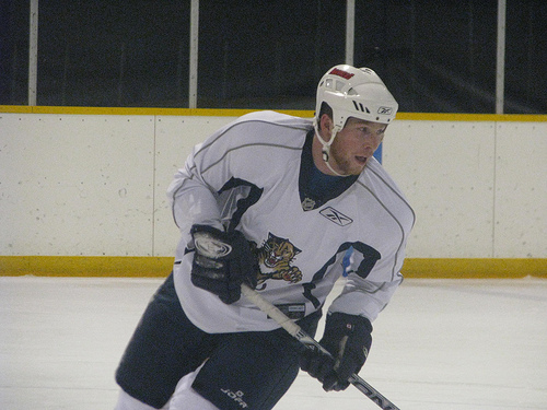 Mike Duco